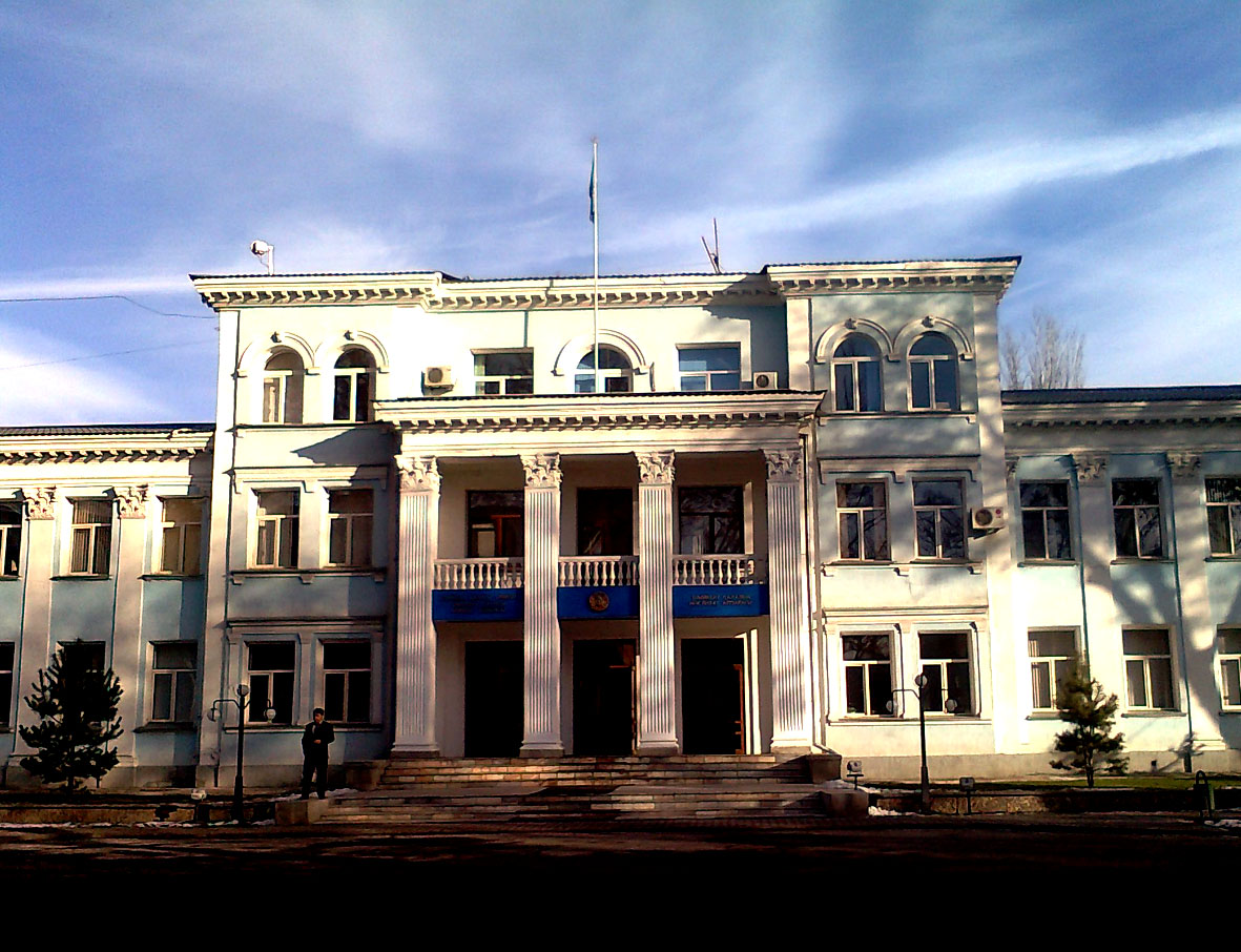 City administration (akimat) in Shymkent